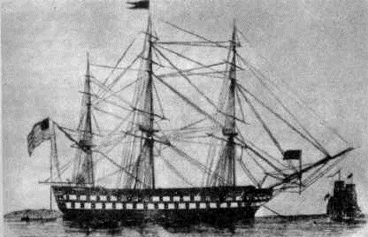 USS Colombus 1819